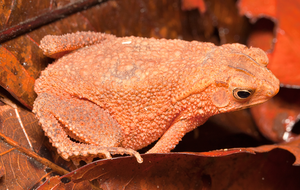 Known before as Bufo quadriporcatus (from other sources). We found this rather cute little frog almost blending itself on the ground full of orange and brown leaves. Name came from the four raised ridges between its eyes. This is male as the male ones are colored bright orange. They like to hide among piles of leaves. This one found in Venus Drive during our macro session.